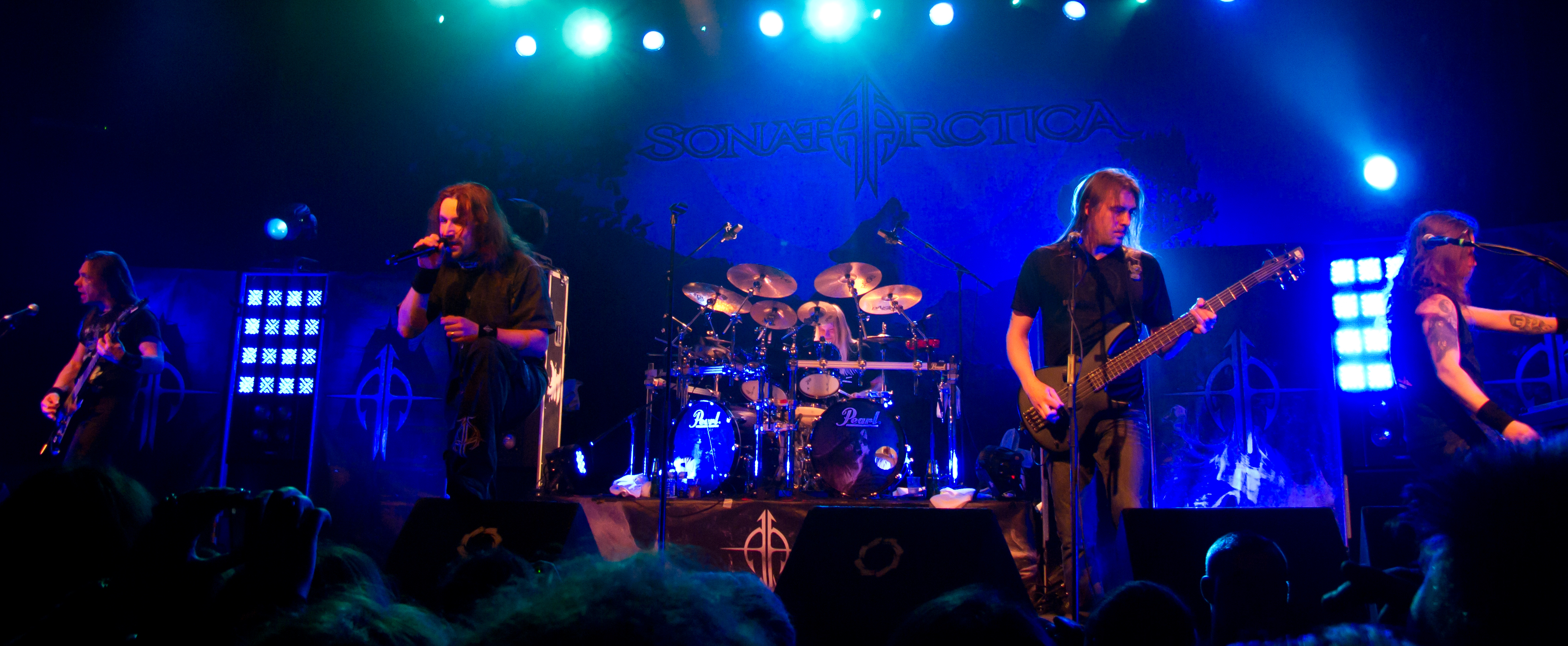 Sonata Arctica live.